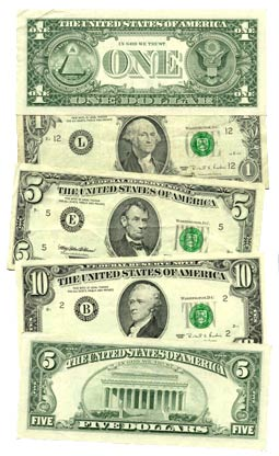 Images of various US dollars. Although the dollars themselves are public domain (with restrictions of usage in the USA by non-copyright laws), it is unclear what the license for the compilation is.